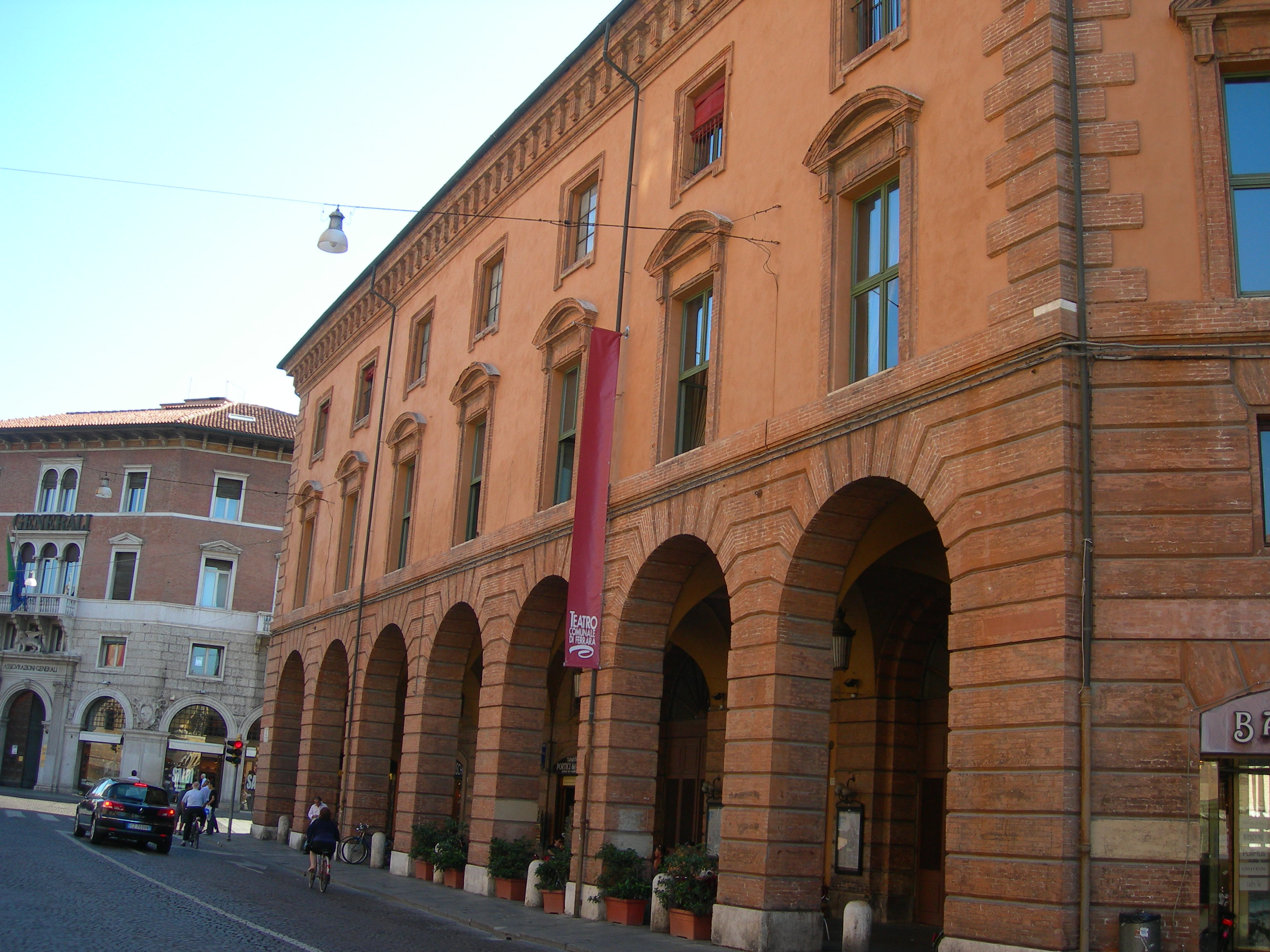 Comunale Theatre Facade